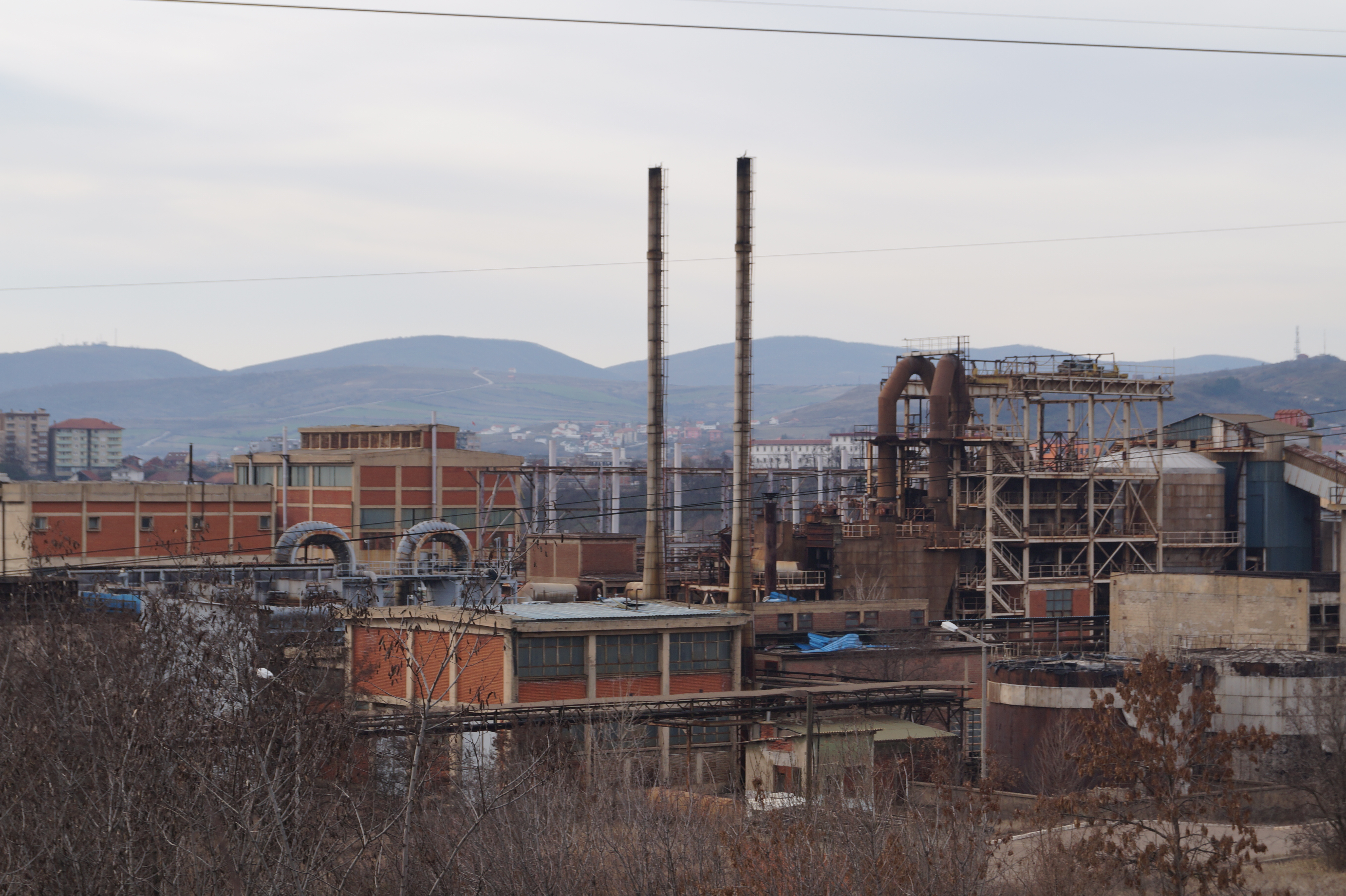 This is one of Trepça's factory, and it is part of the Mitrovica identity. One can find this factory at the entrance of the city.